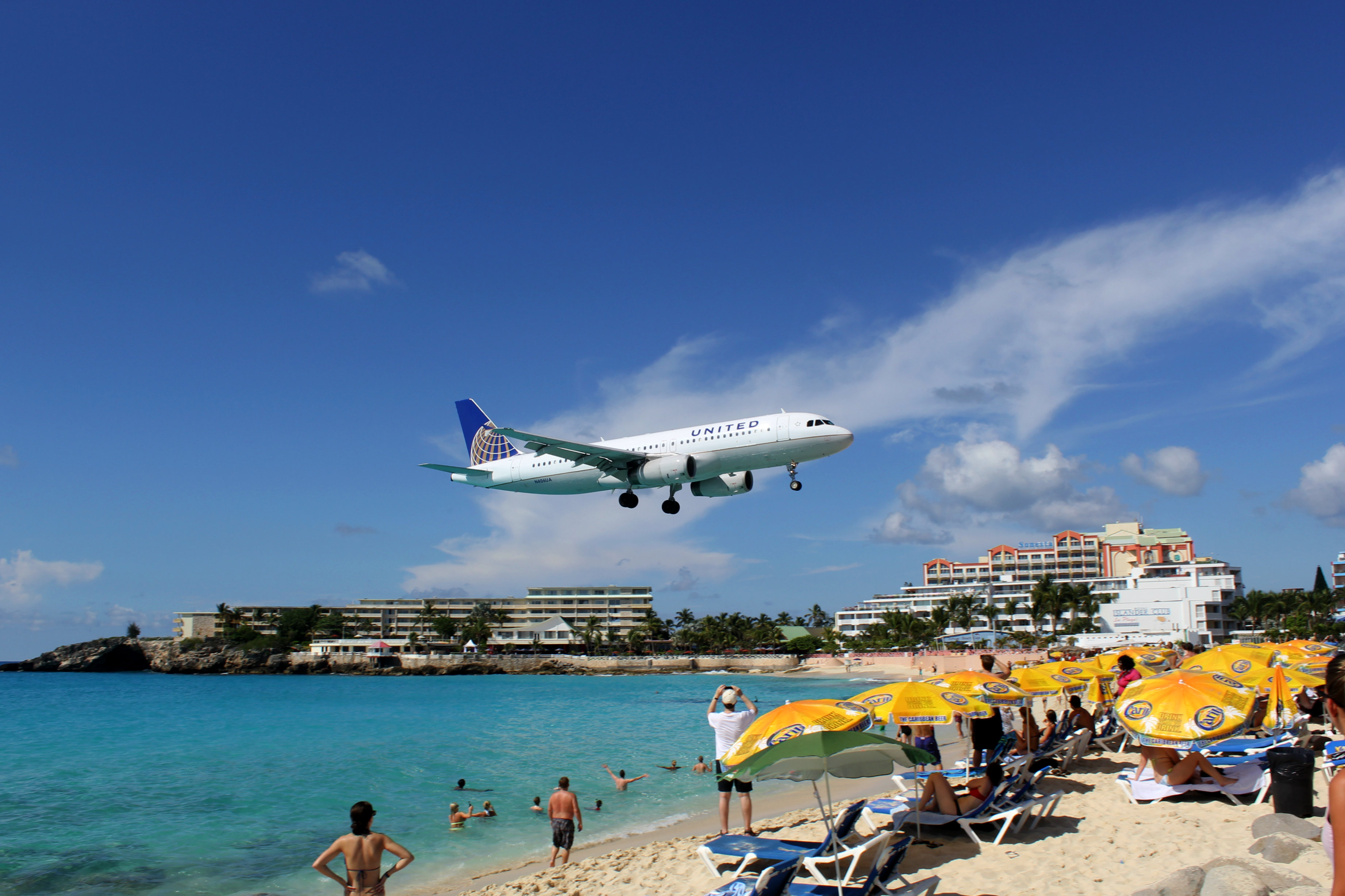 United Airlines Airbus A320-232